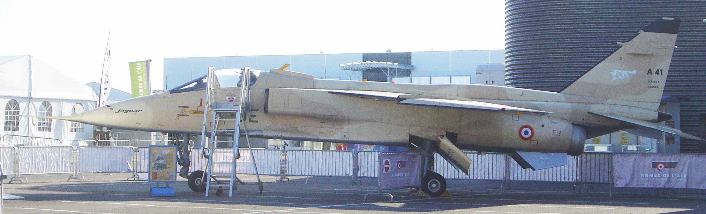 SEPECAT Jaguar, Escadrille SPA 15, Escadron de chasse 1/7 Provence. Photograph taken at: Paris Air Show, 2005